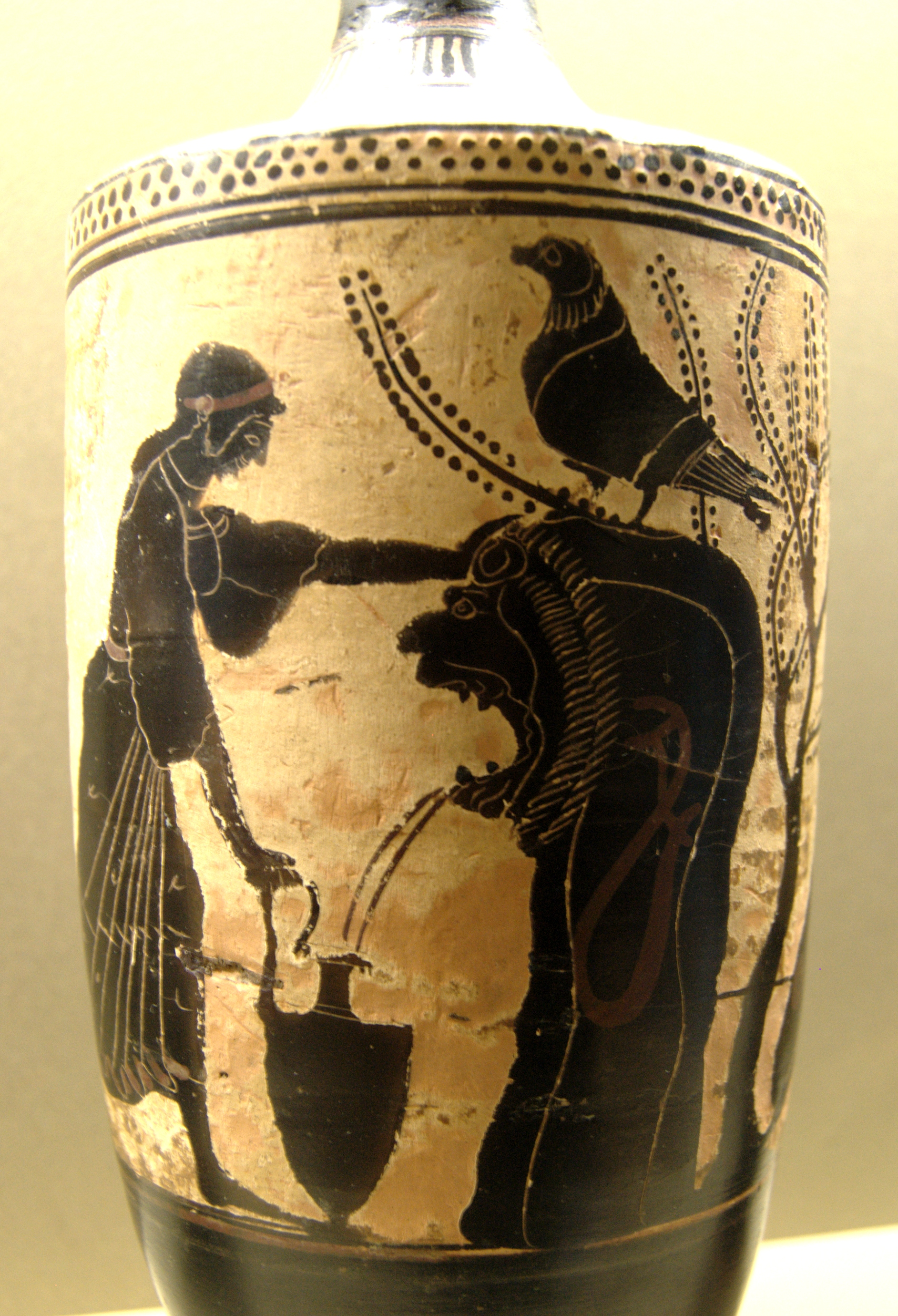 Polyxena at the fountain, watched out by Achilles (right). Attic white-ground lekythos, ca. 480 BC. From South Italy.